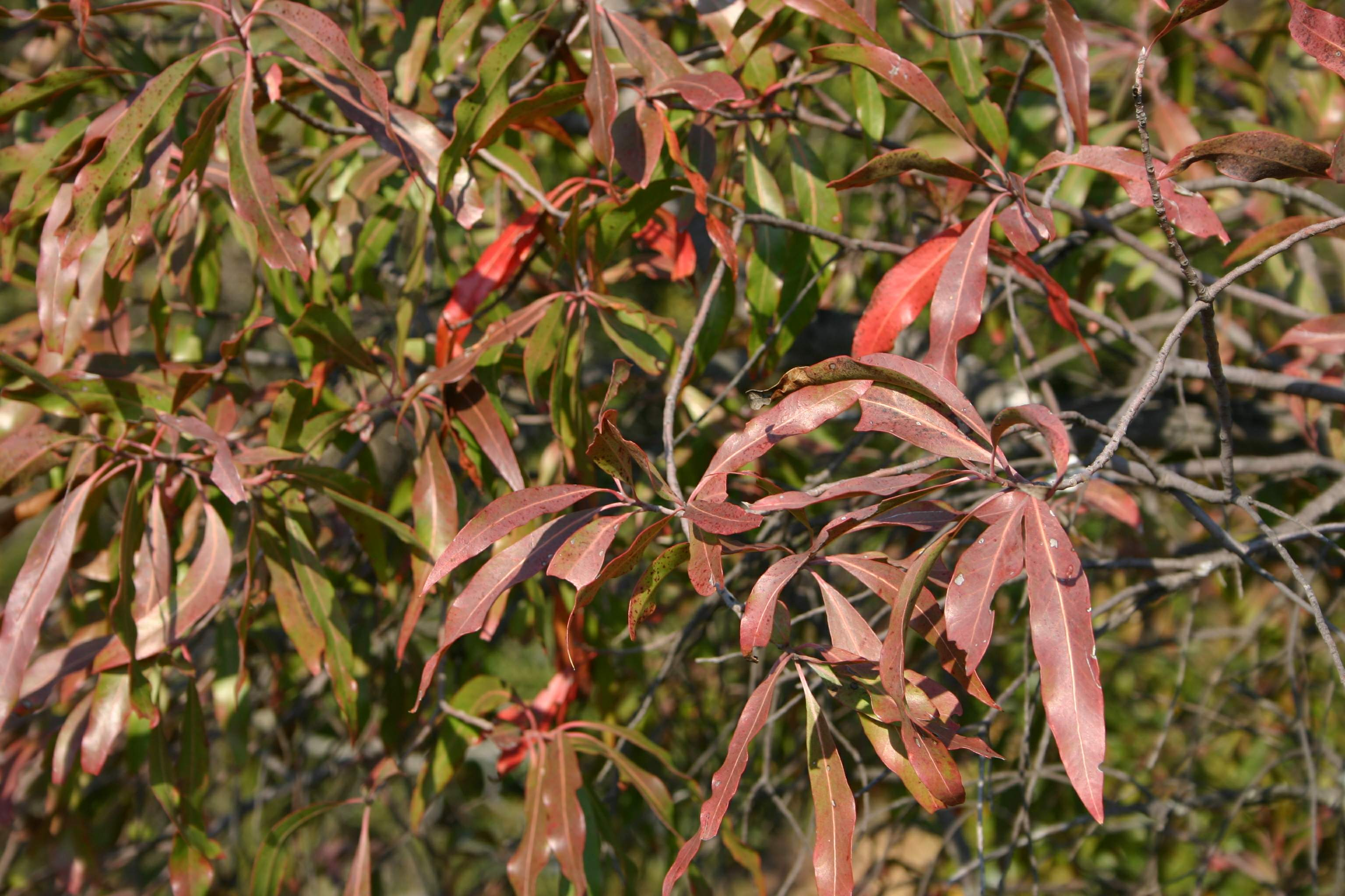 Winter foliage on Faurea saligna Harv., Hamerkop Kloof, Magaliesberg, South Africa